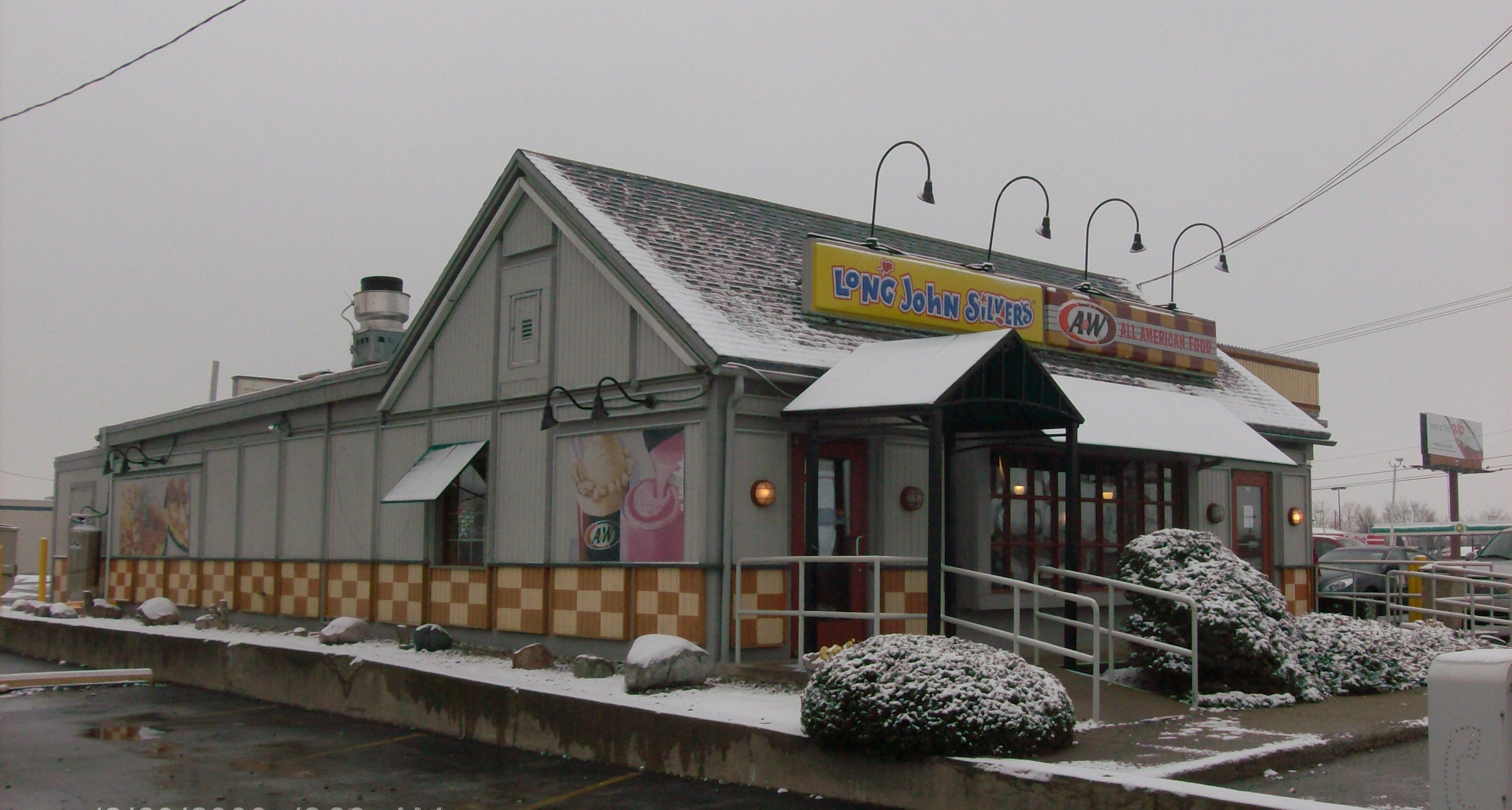 A Long John Silvers/A&W combination restaurants in Kokomo, Indiana.